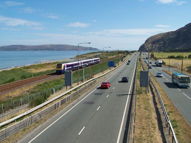 The A55 runs along the coast alongside the North Wales Coast Railway at Penmaenmawr. Barrie Hughes.